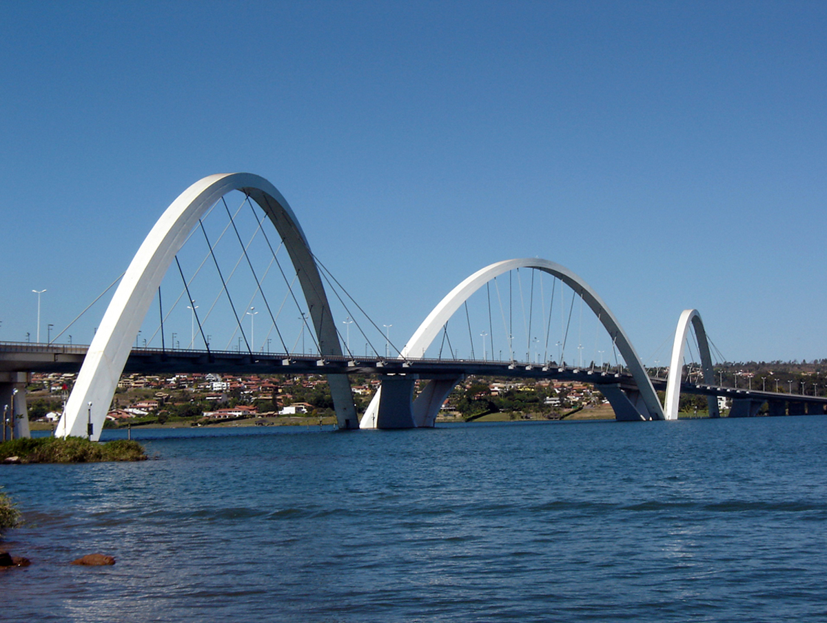 Bridge Juscelino Kubitschek (Ponte JK), Brasilia, D.F., Brazil. 2005 Architect Alexandre Chan.